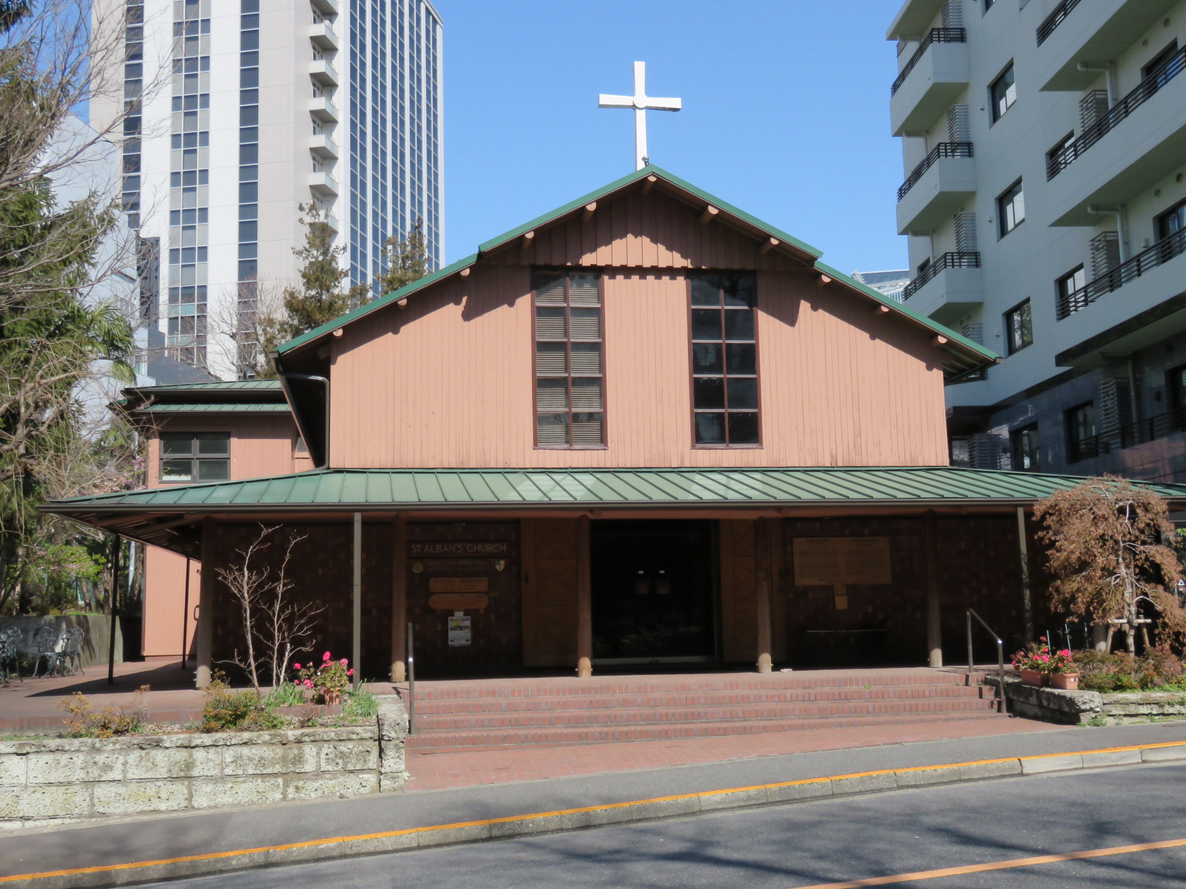 St. Alban's Church, Tokyo, Exterior